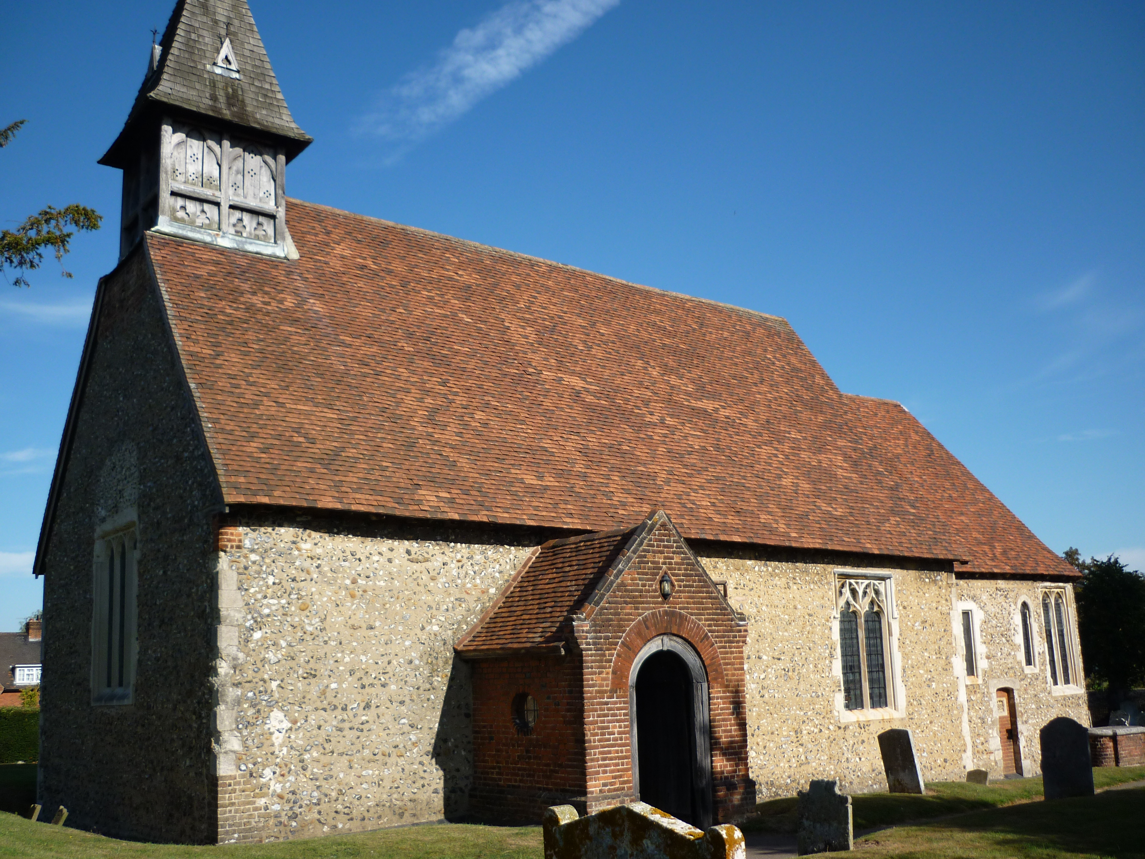 View of St. Leonard's church, Bengeo, Herts.